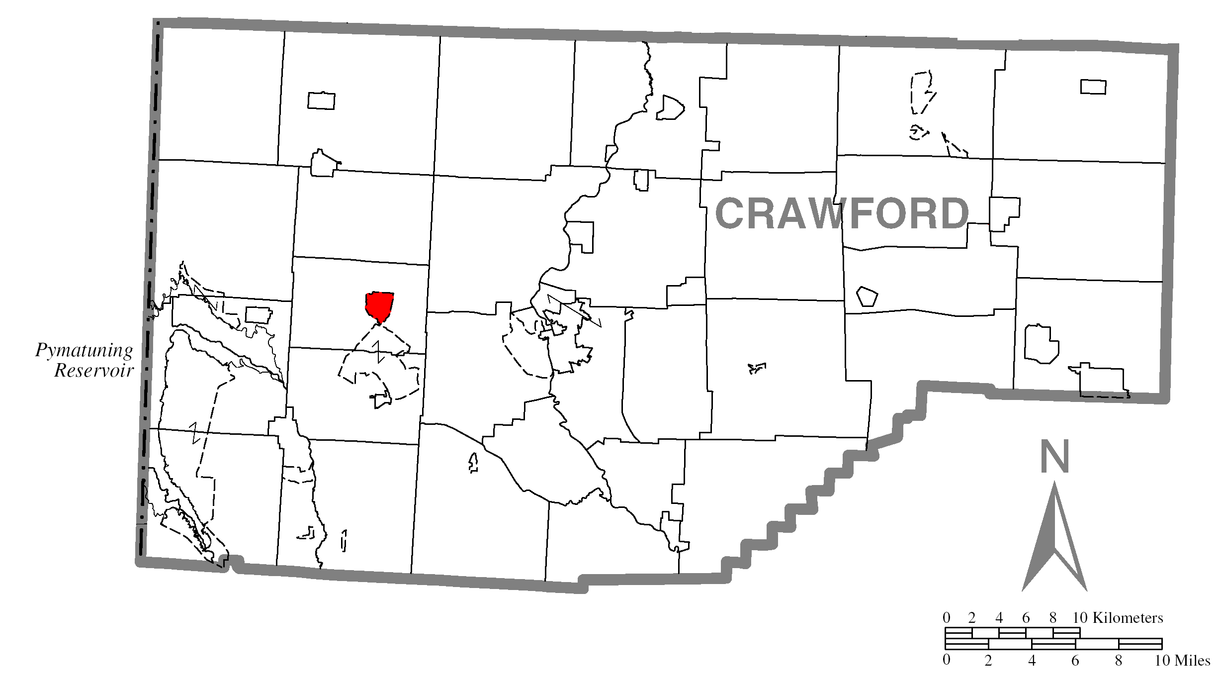 Map of Crawford County higlighting Harmonsburg.